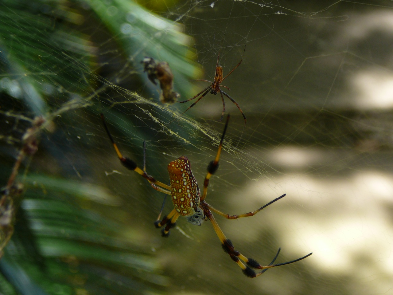 A male and female banana spider.